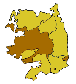 Archdiocese of Tuam in the Catholic Province of Tuam. This is a current map of the ecclesiastical province in the Catholic Church. The crosses mark where the current Cathedrals of each diocese is located. The specific dioceses are in different colours.